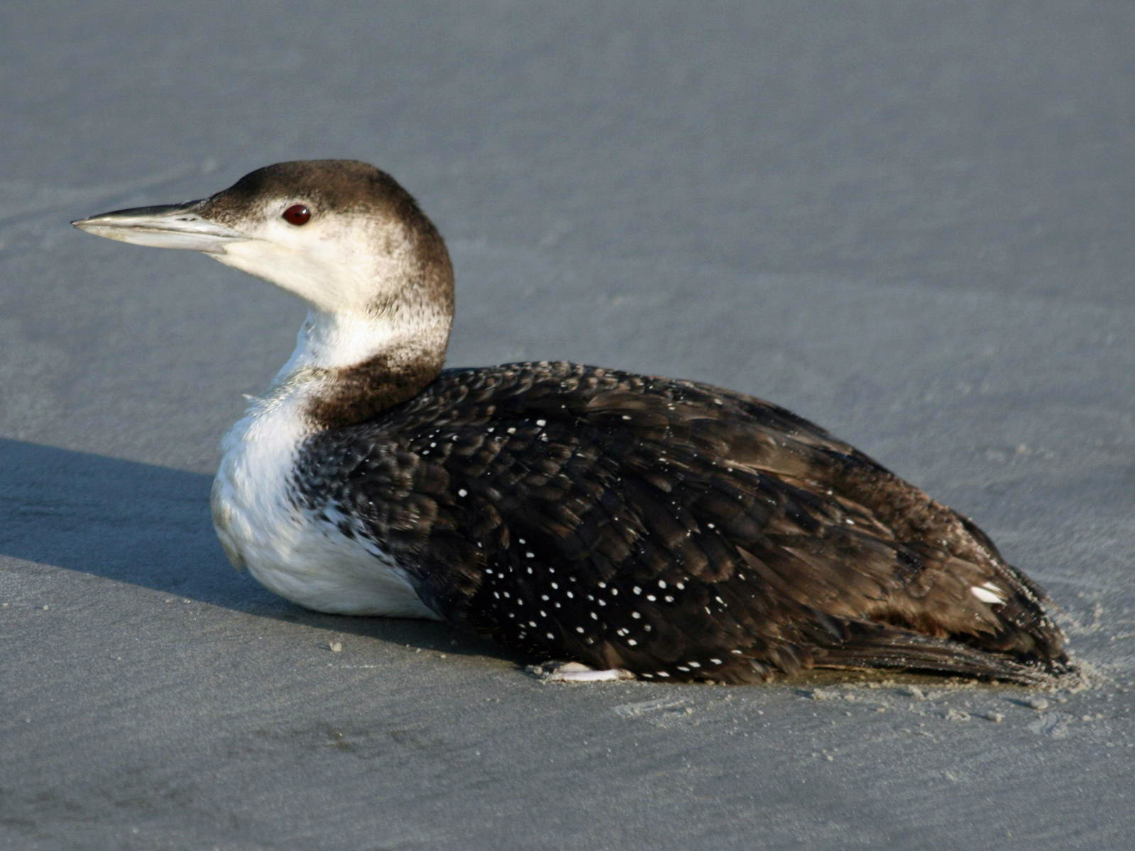 Common Loon (Gavia immer) - Sunset Beach, North Carolina